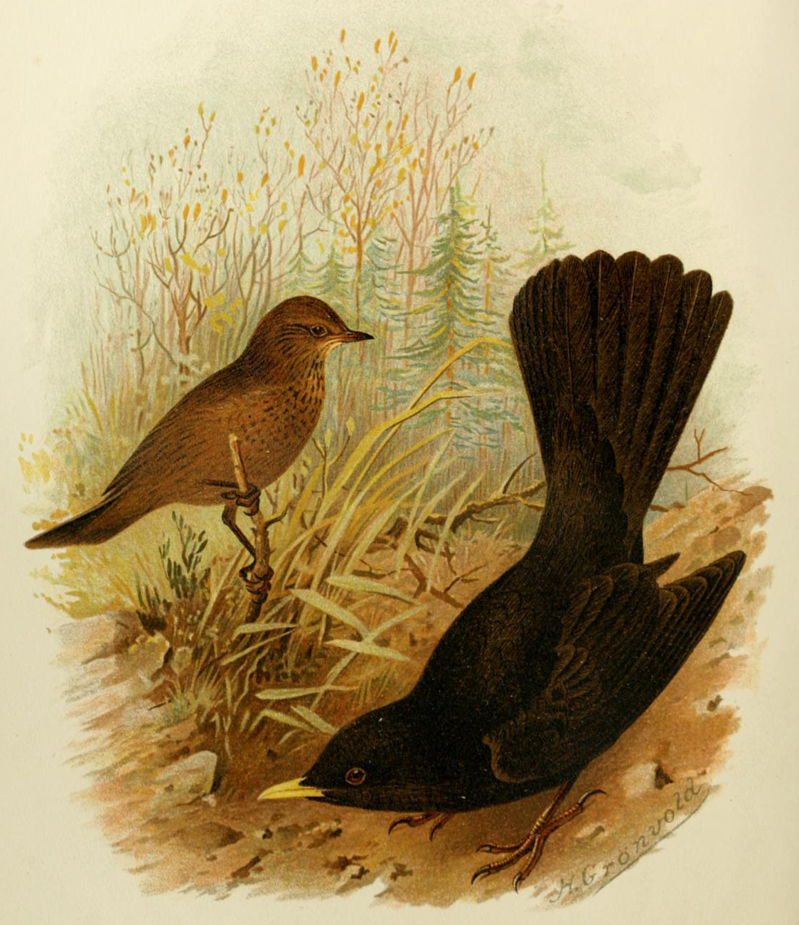 An illustration of two Common Blackbirds by Henrik Grönvold